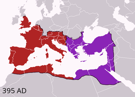 Map of the boundaries of the western and eastern Roman empires after the death of Theodosius I, in 395 AD. Western Roman Empire Eastern Roman (Byzantine) Empire